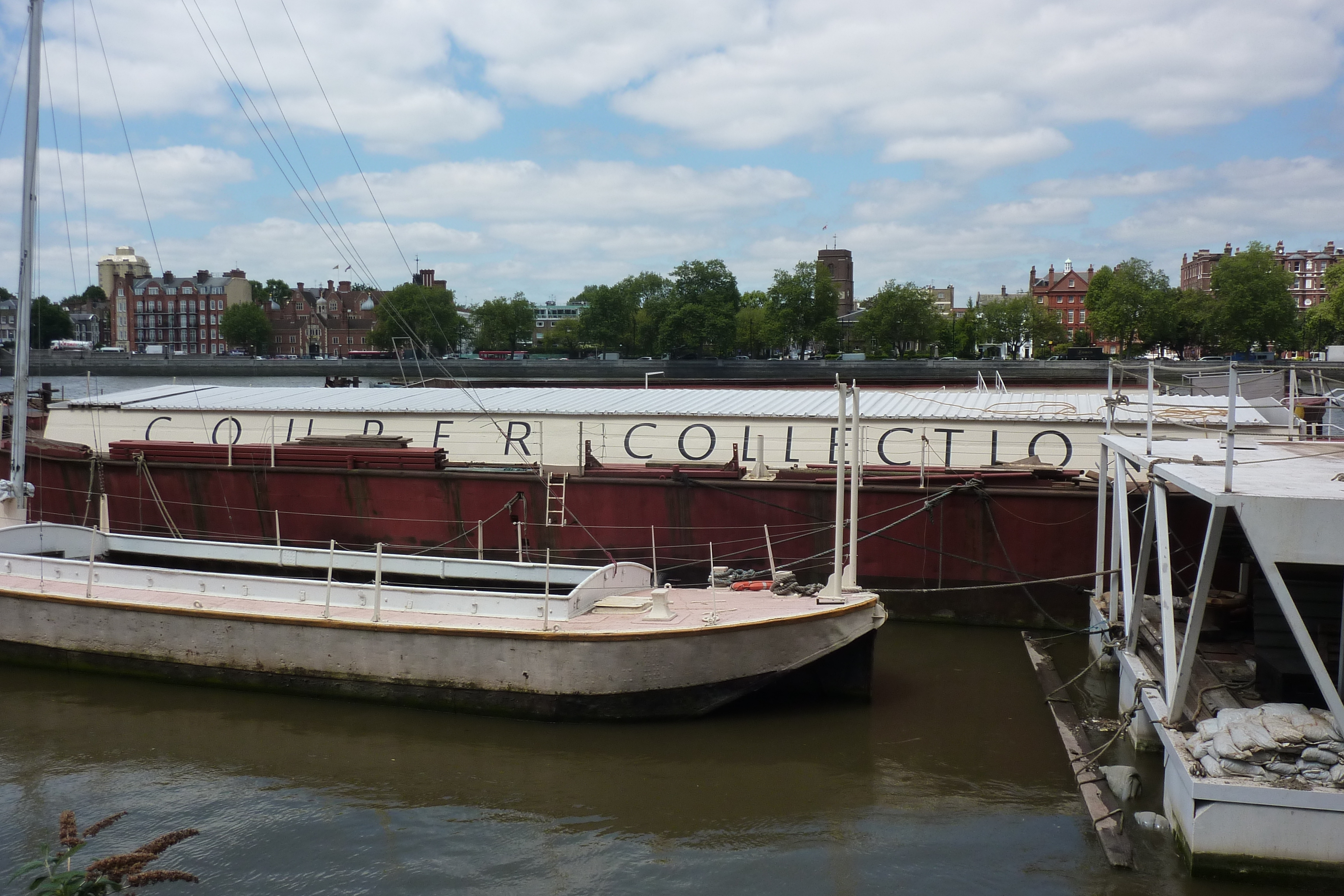 A floating gallery in Battersea [Closed Saturdays] Read about our Thames Path journey at .uk/walks/thames_path/